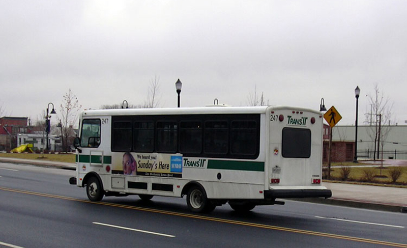 Vintage 1998 Breadbox departing the Frederick MARC service in 2003.